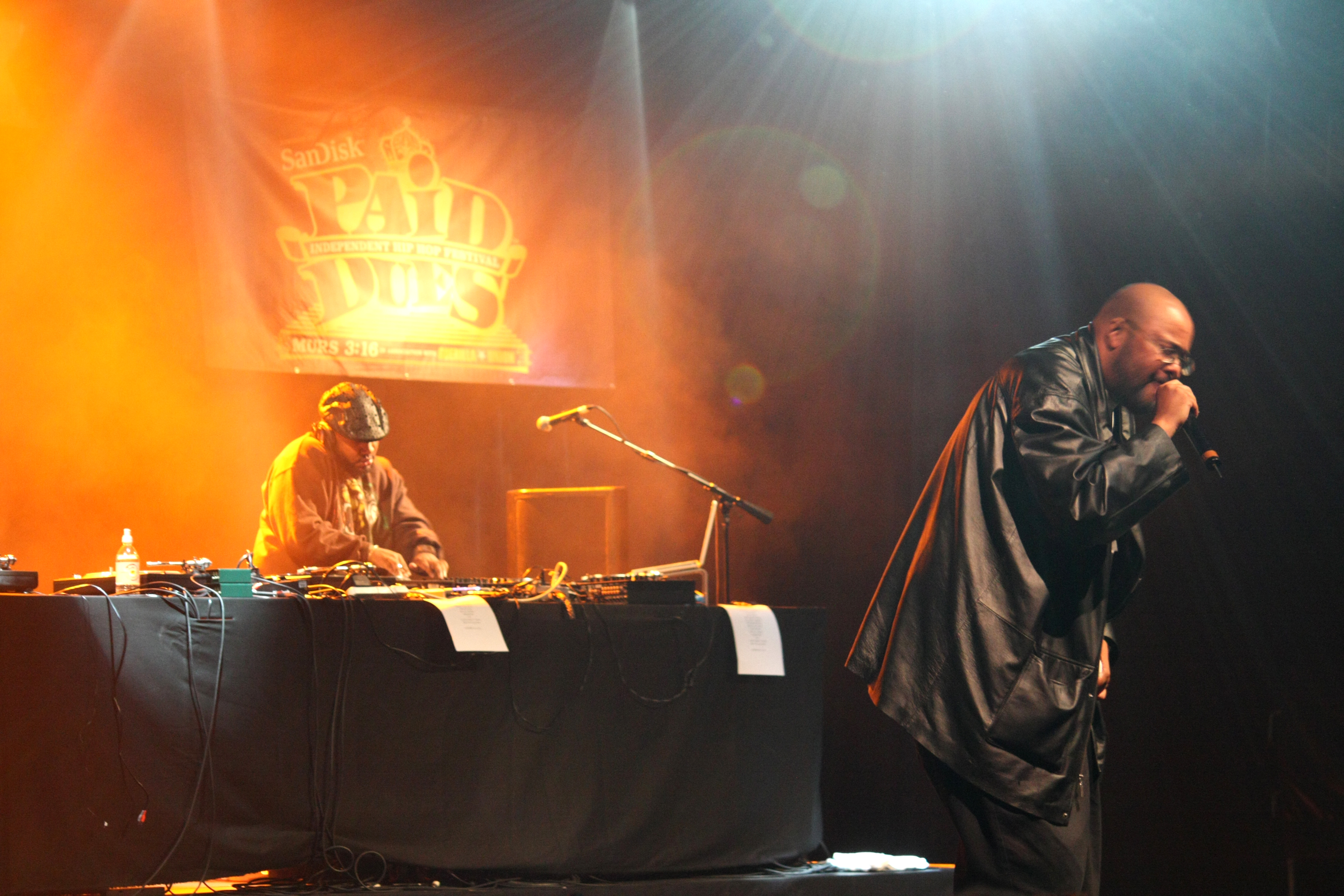 Blackalicious duo Chief Xcel (left) and Gift of Gab performing at the Paid Dues hip hop festival at the Nokia Theatre in New York City.